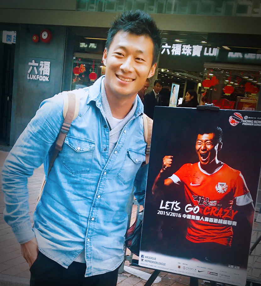 Yuan Yang Roadshow